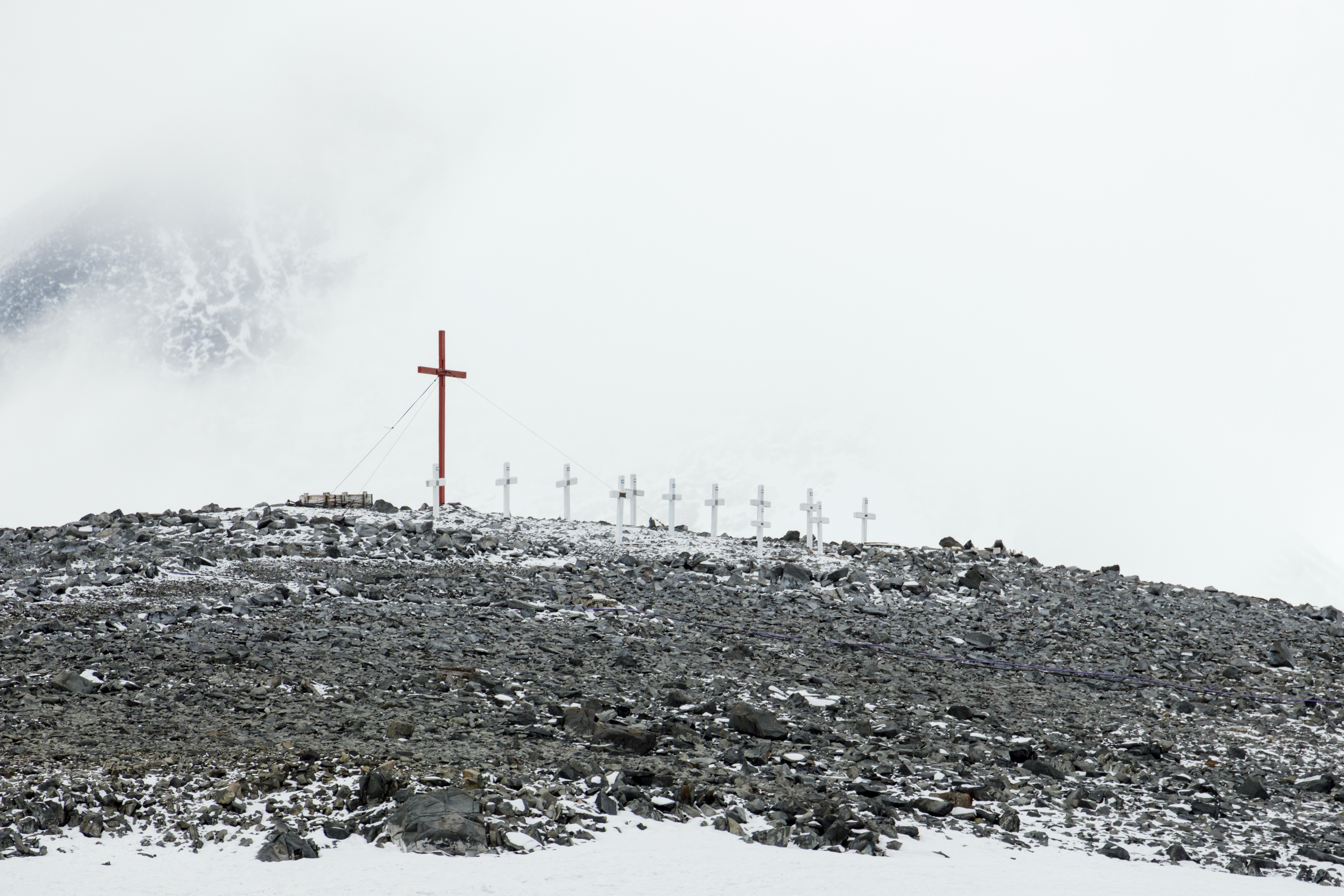 Esperanza Station cemetery, Hope Bay, Trinity Peninsula, on the northernmost tip of the Antarctic Peninsula (shot from a moving zodiac).